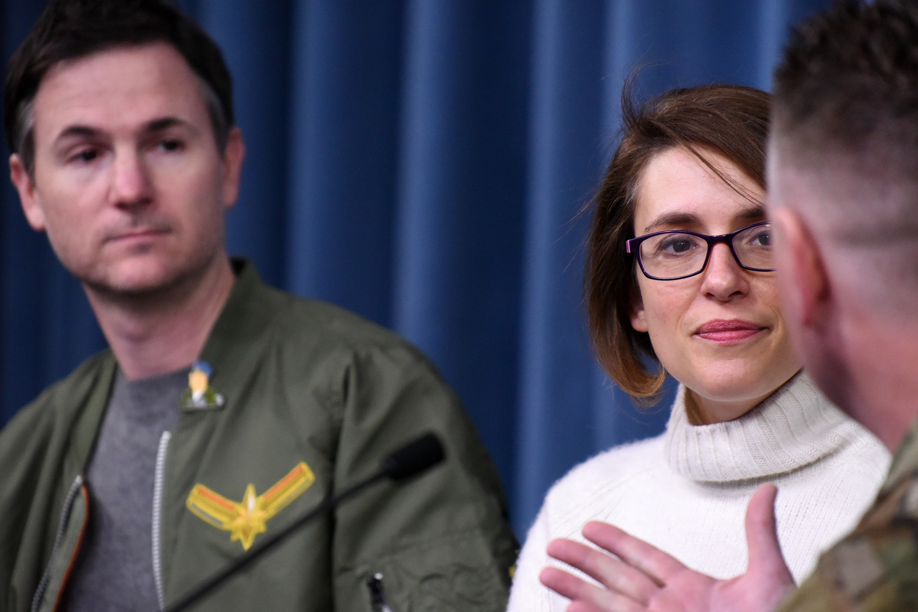 Anna Boden and Ryan Fleck, “Captain Marvel” co-directors, answer questions during a round table at the Pentagon, Arlington, Va., March 7, 2019. The media round table was one of many events held as an outreach event targeting Air Force families, congressional representatives and select organizations. (U.S. Air Force photo by Staff Sgt. Rusty Frank)